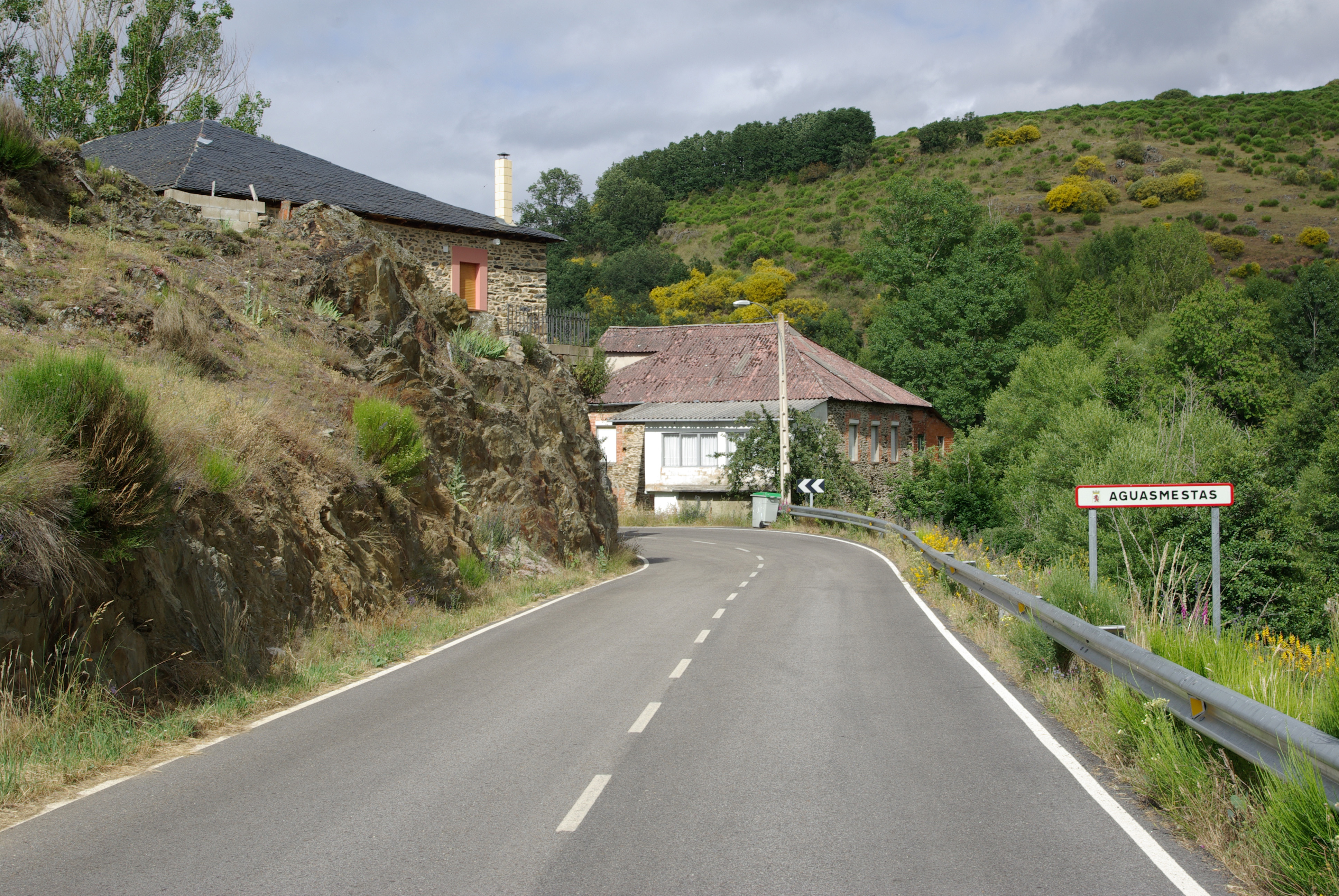 Aguasmestas (Riello, León, Spain)